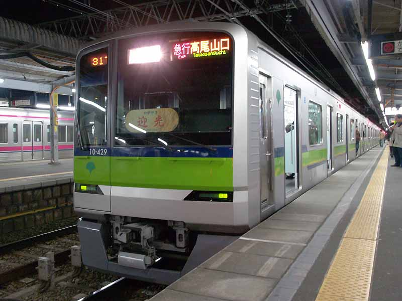 Toei Shinjuku Line special train "Geiko Kagayaki-go"（迎光かがやき号）, bound for Takao-san-guchi (Mt. Takao) through Keio Railways operated in only dawn of January 1. Place: Takahata-fudo station (Keio Railway)